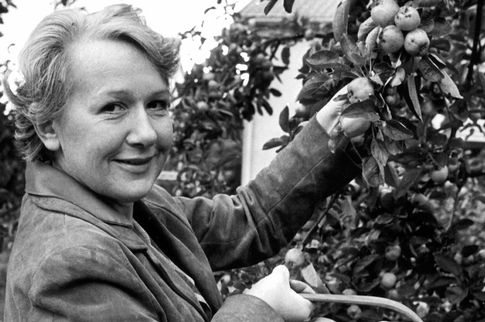 The Swedish actress Sif Ruud. Picking apples in her garden.